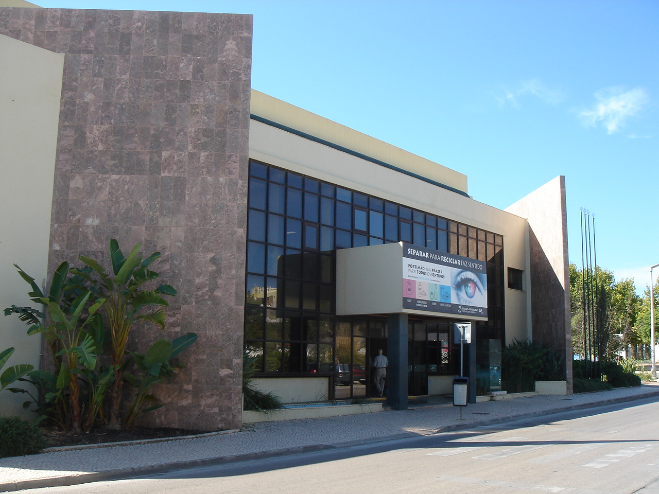 North view of EMARP's HQ building in Portimão (Portugal), photo by Vitor Madeira in 2006/Sep/19.